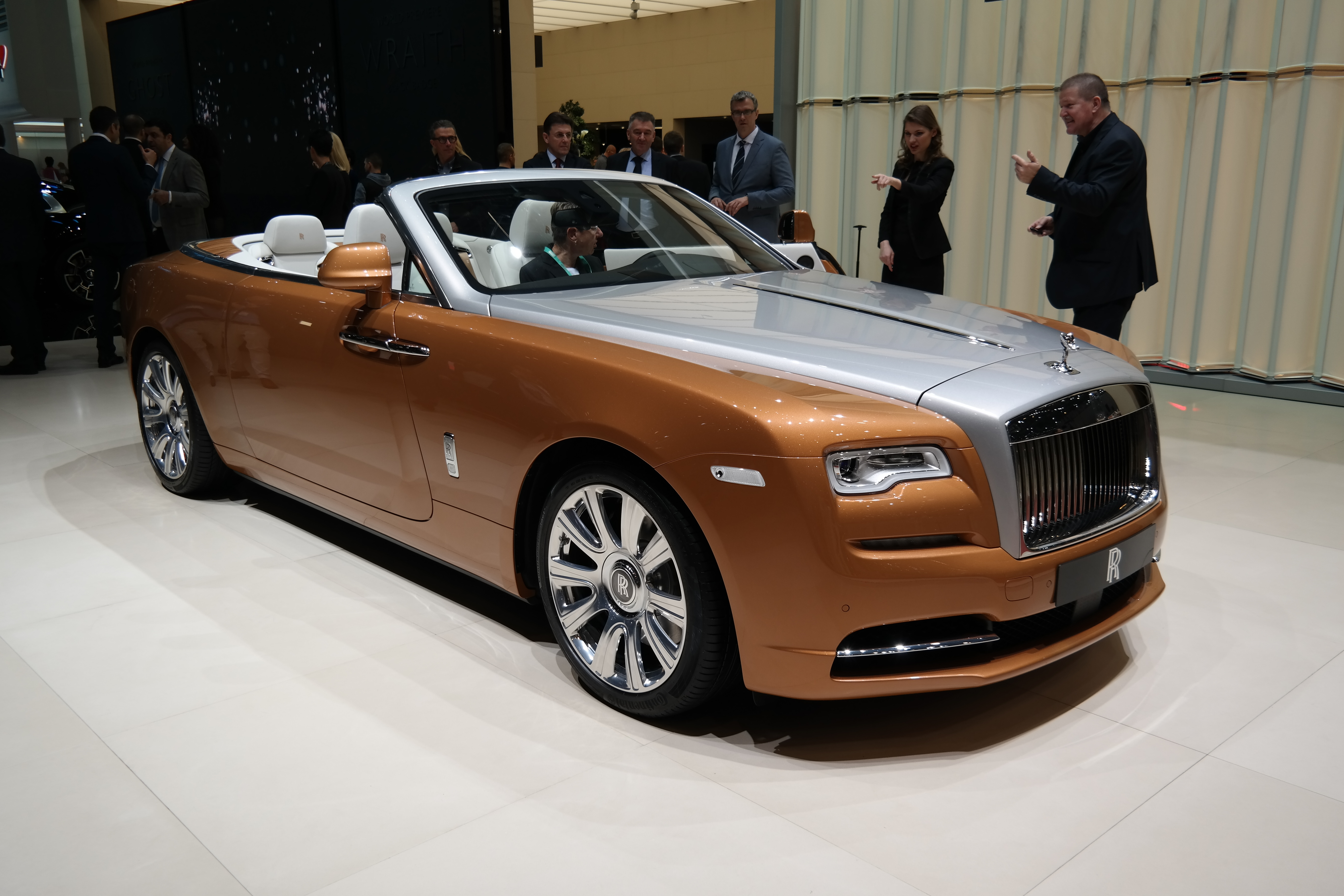 Geneva Motor Show 2016 (photo taken on the first press day)